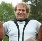 Cropped from this image